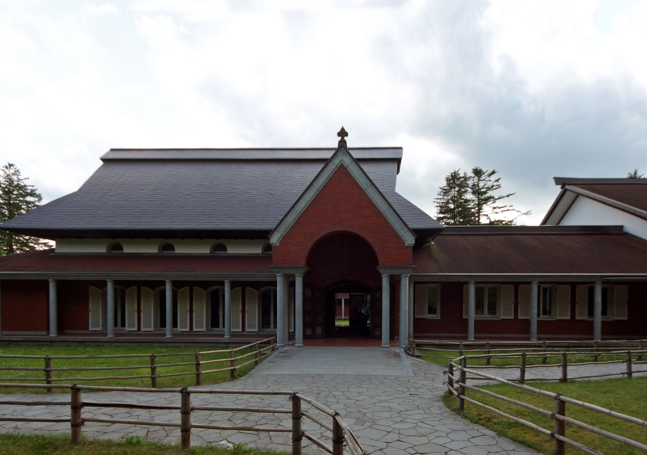 Kakunodate Cherry Bark Handicrafts Denshokan Hall, Kakunodate Senboku Akita Japan, designed by Hiroshi Oe in 1978.